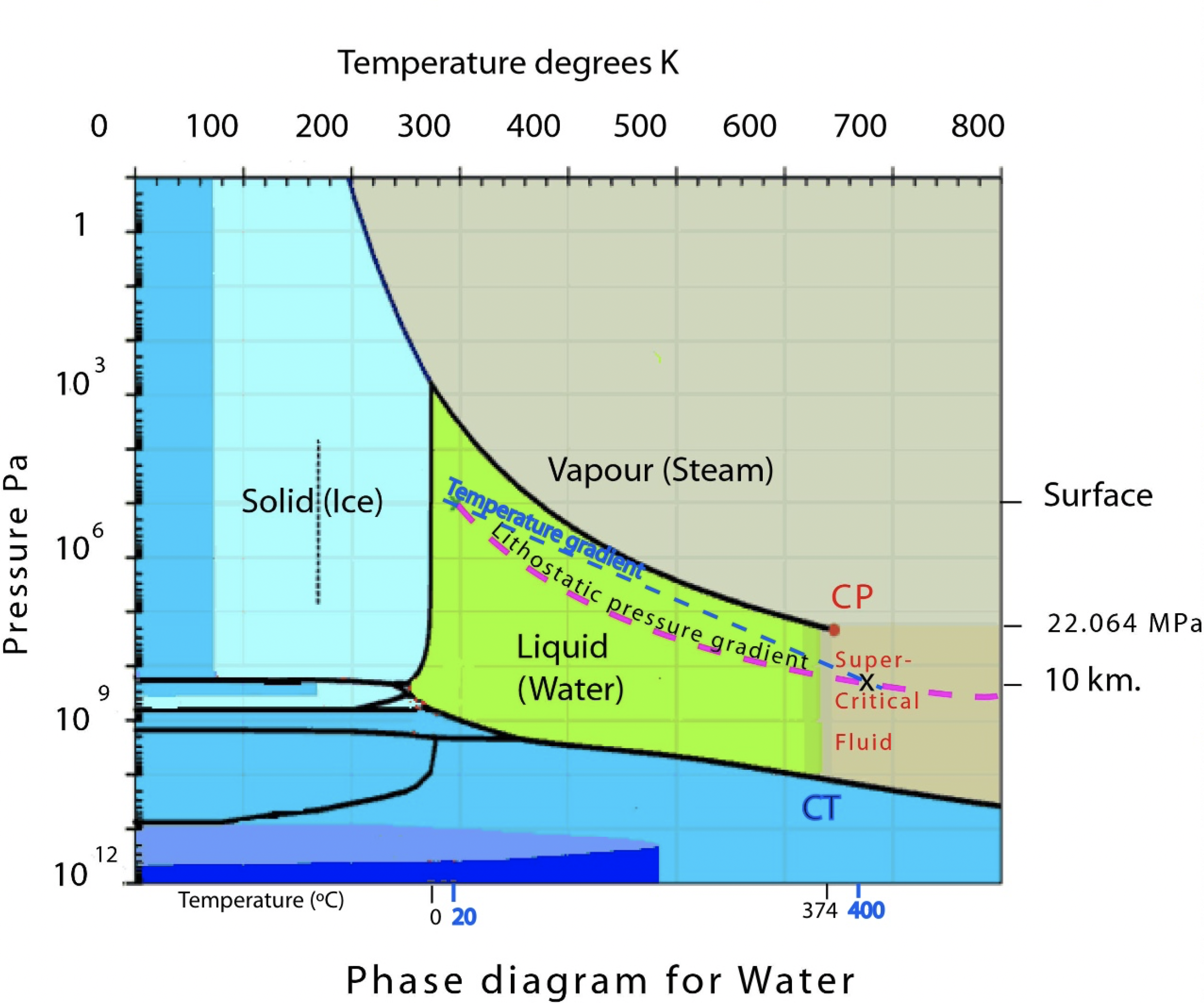 Water reaches supercritical phase at temperature and pressure in the crust reached at approximately 10 km. This water phase is an extremely effective solvent.